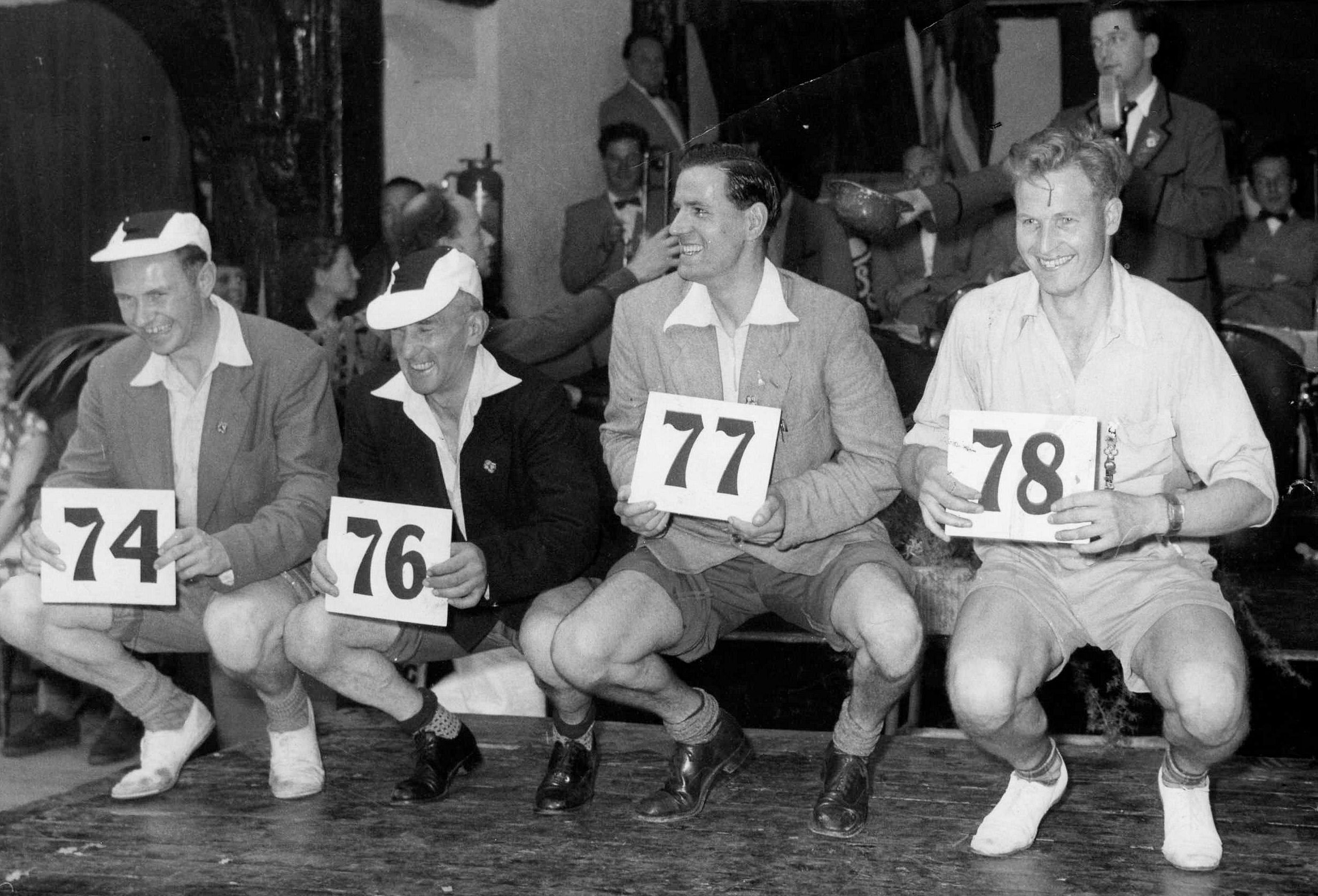 Christopher Michael Roche (Number 78) Butlins knobbly Knees Contest winner, Skegness Butlins Born Wexford, EIRE Christmas day 1926 died Liverpool Easter Monday 2009